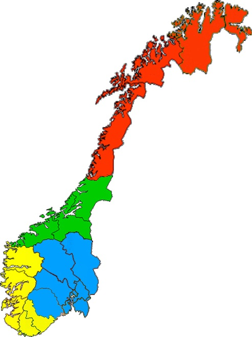 Venture Cup Regions Norway